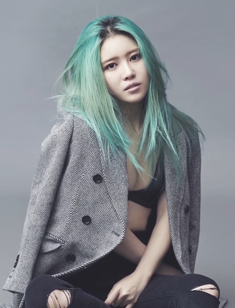 Suran at a photoshoot in 2016